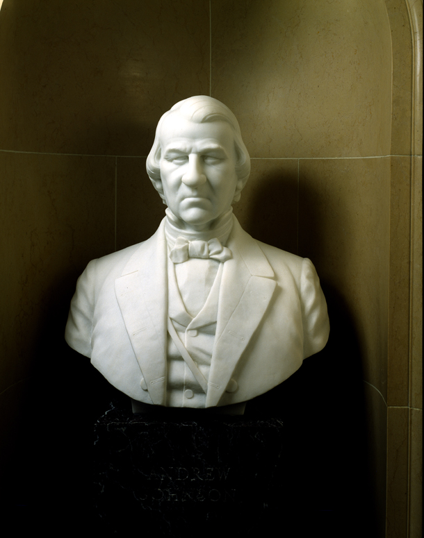 Andrew Johnson by William C. McCauslen (1860 - 1929) Marble, Modeled 1900, Carved 1900 Overall (bust) measurement Height: 32 inches (81.3 cm) Width: 28.5 inches (72.4 cm) Depth: 18.63 inches (47.3 cm) Unsigned Cat. no. 22.00016.000